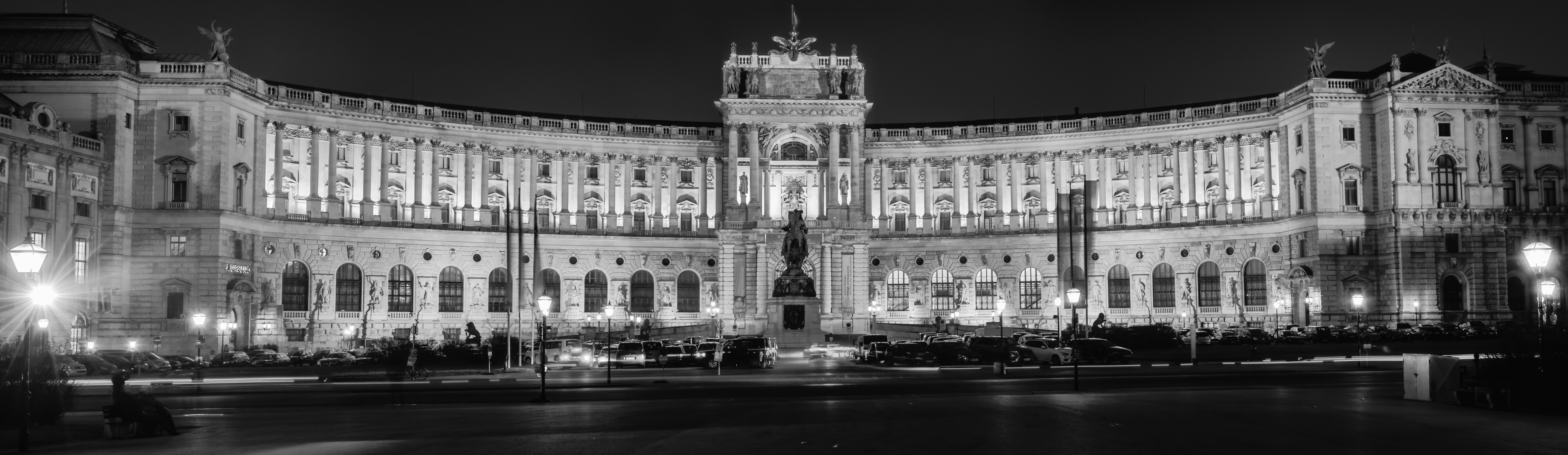 Neue Burg, Vienna